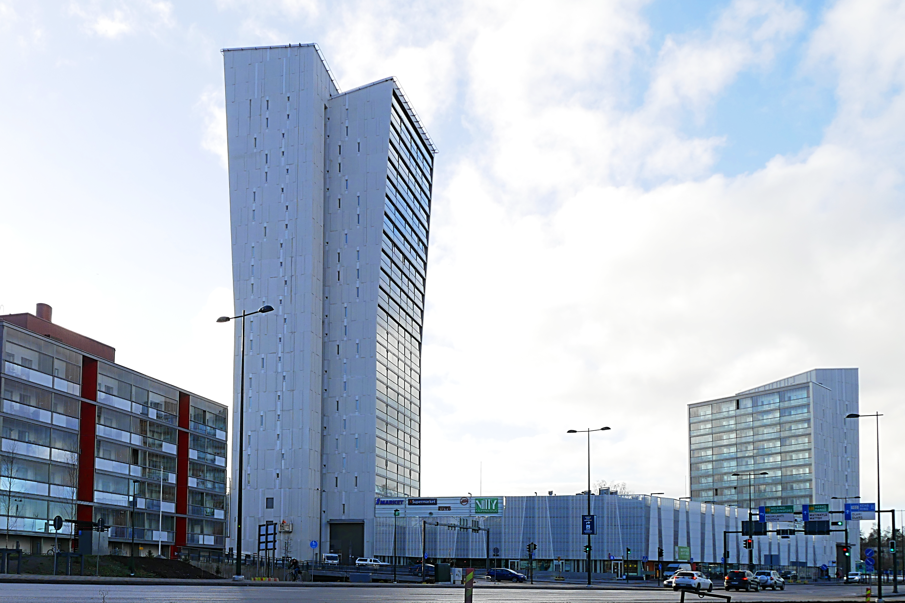 The high-rise residential building "Niittyhuippu" in Niittykumpu, Espoo, Helsinki Region, Finland.